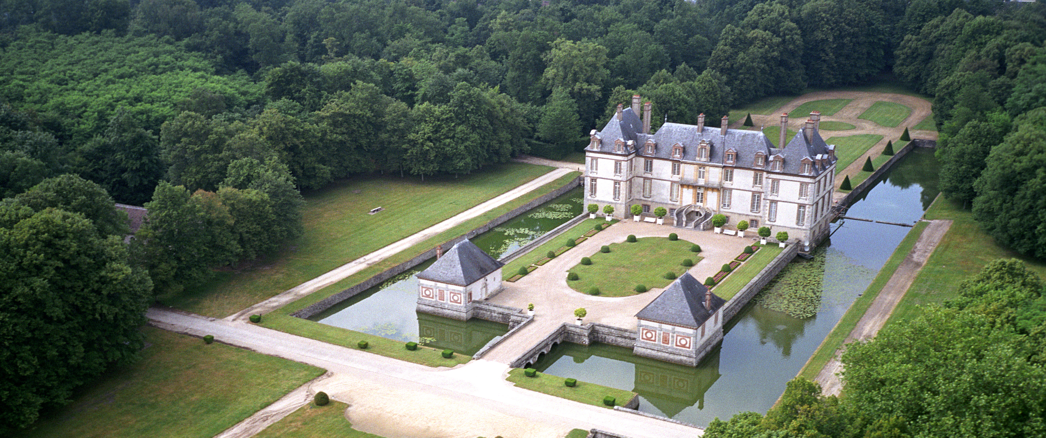 In the heart of a 100 acre estate, 50 minutes south of Paris near Fontainebleau, is found this stately "brick and stone" castle from the early 17th century, surrounded by a moat from an earlier feudal fortress. With its two horseshoe staircases, it echoes the famous Fontainebleau castle nearby. Come and discover our luxury guest rooms in a french family castle close from Paris.